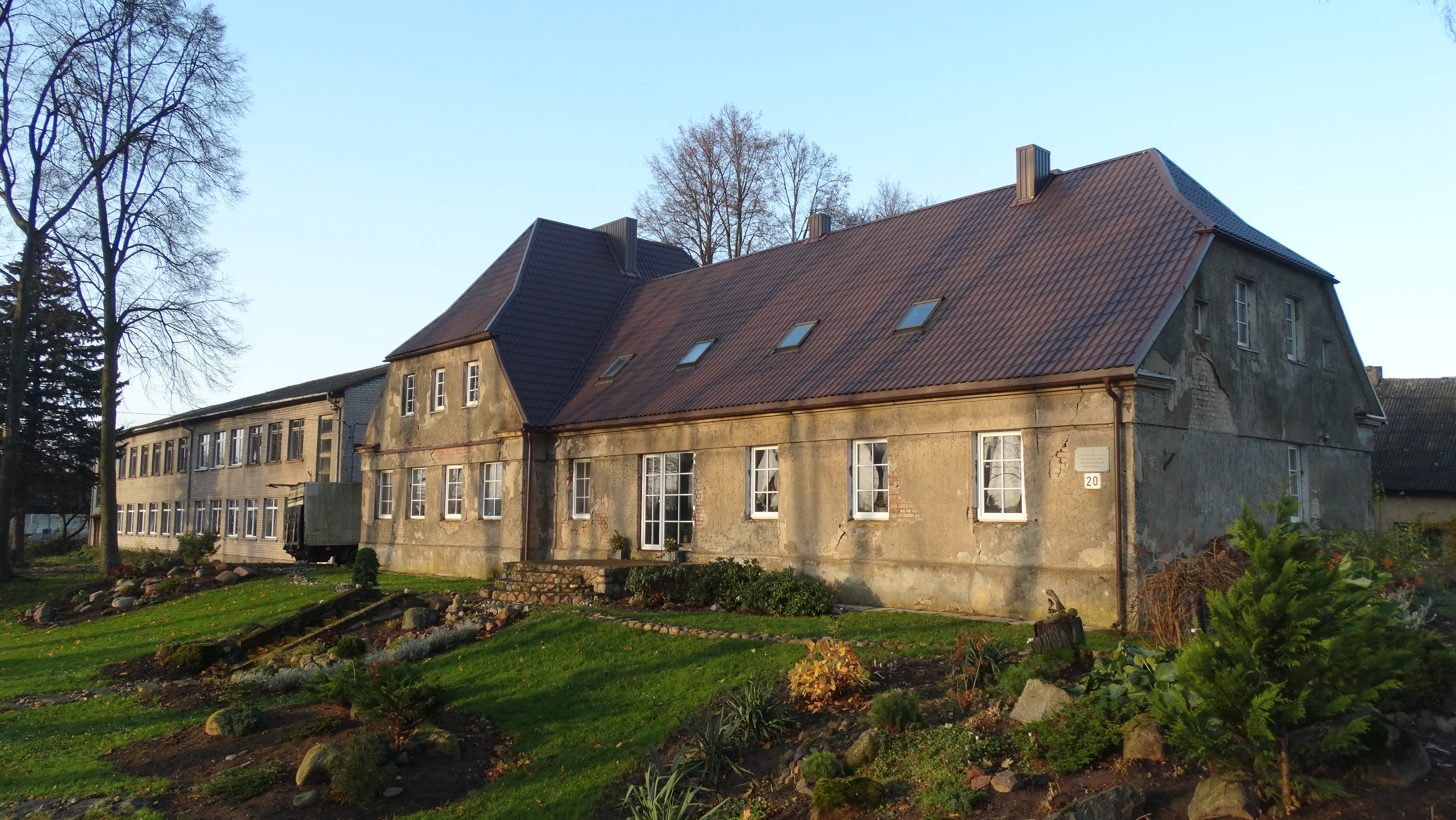 Former school, Panemunė, Pagėgiai Municipality, Lithuania